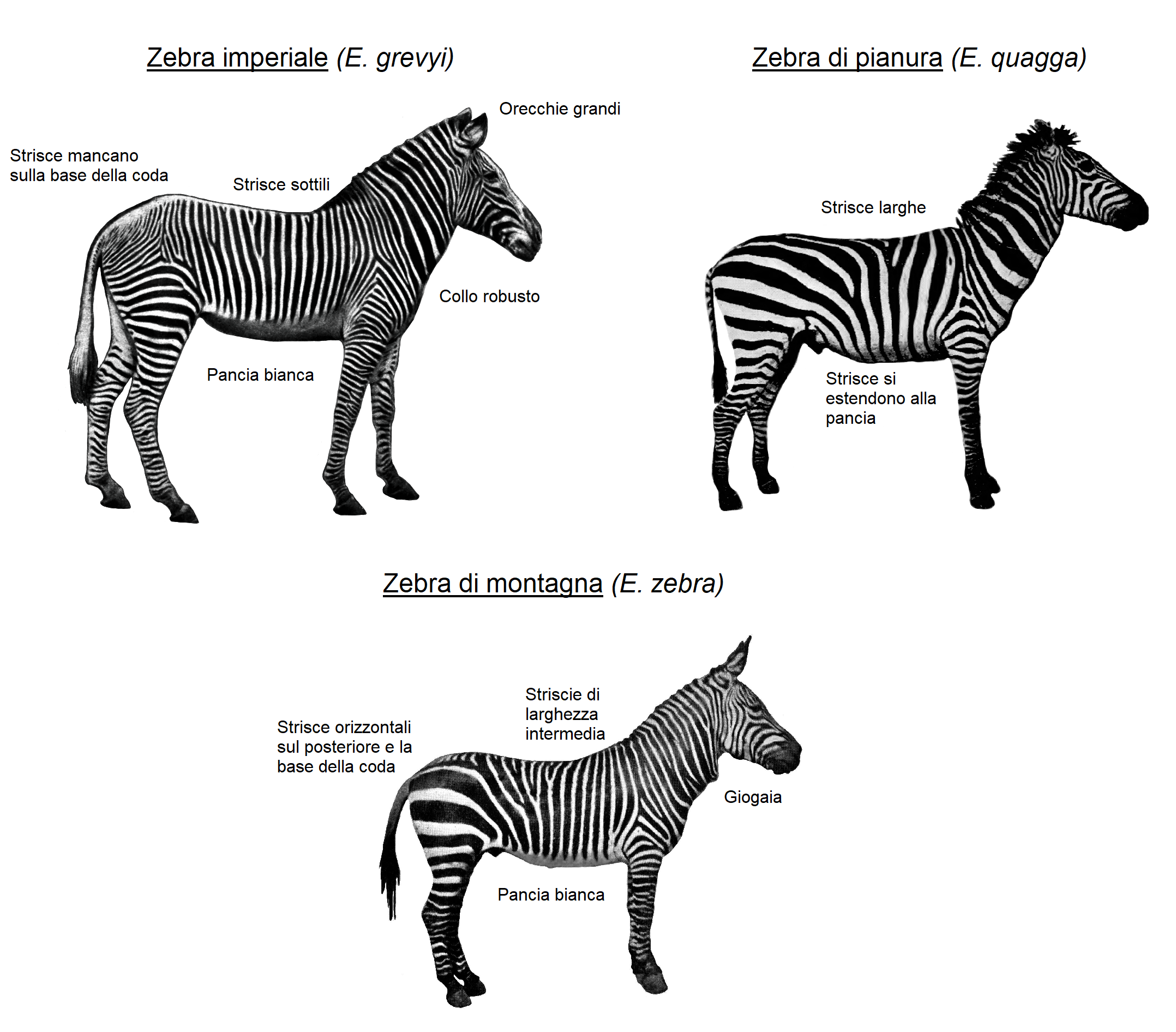 Comparative illustration of extant zebra species in Italian.